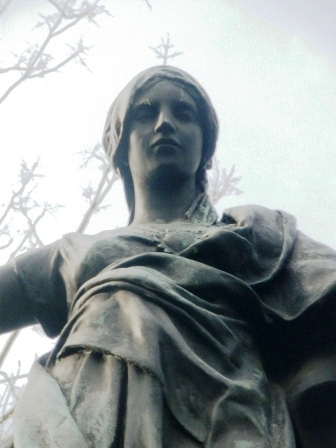 Figure on top of Fulham War Memorial by the sculptor Alfred Turner